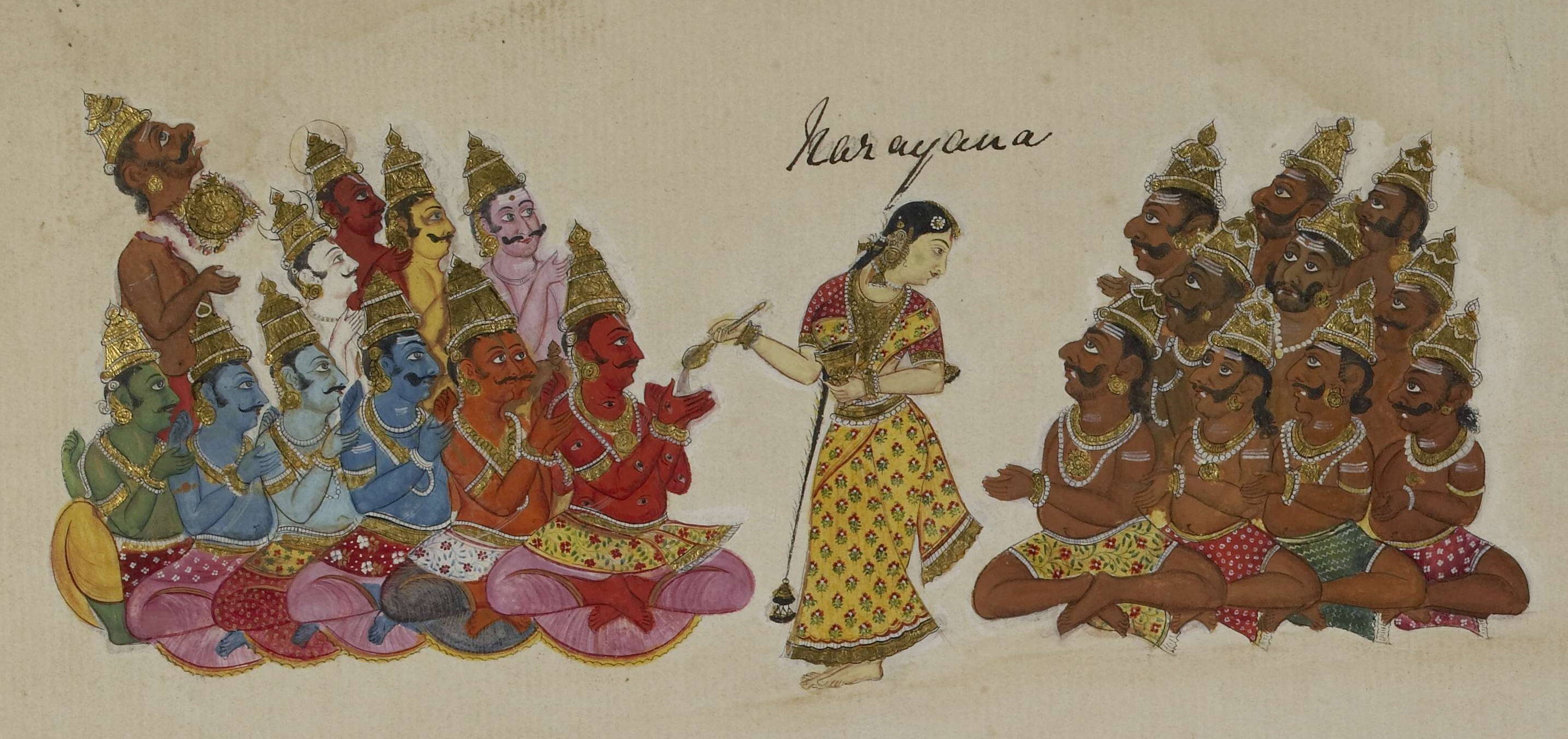 "Viṣṇu as Mohini, identified by an inscription 'Narayana', is doling out the amrita to the assembled gods seated opposite the asuras. While she is busy she is distracted by the asuras clamouring for their share. In that moment, Rahu seated among the devas, and anxious to get his share of amrita, is discovered and decapitated by Viṣṇu's cakra."